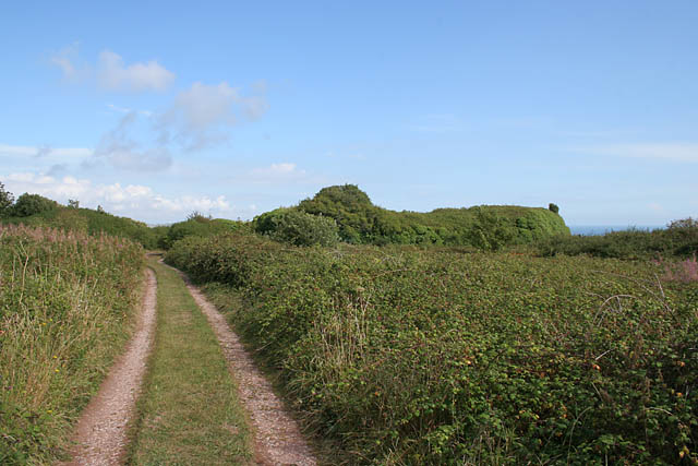 Grenville Battery, Maker Heights. This is the north face of the battery, totally covered with ivy. See 36797